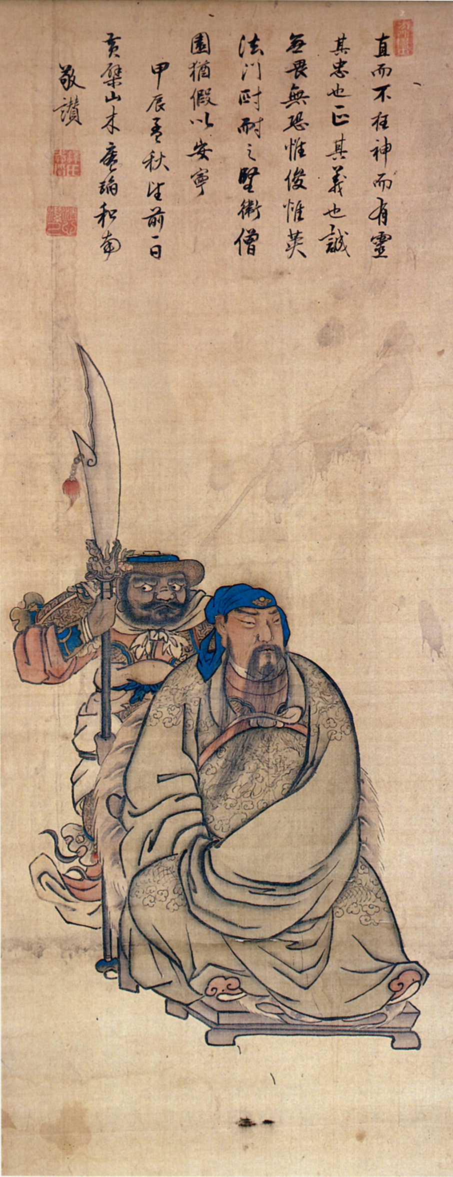 Kuanti Fan,Daosheng,Inscription by Muan,color on silk,hanging scroll ,Shofuku-ji Temple Nagasaki Pref